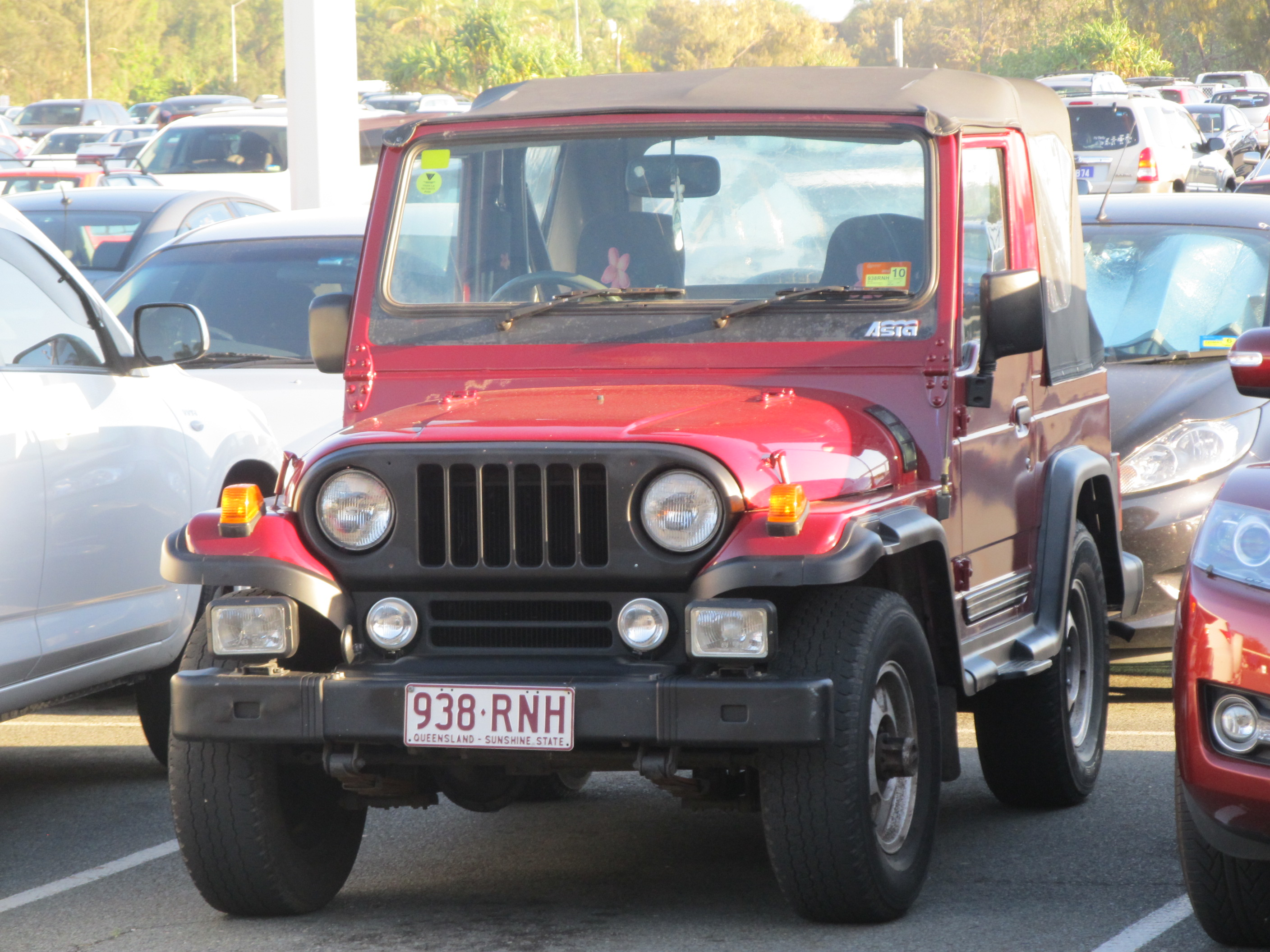 1994 Asia Rocsta soft top. After spending a day at Sea World, I walked out into the car park and spotted this! I don't think I've ever been so surprised to see such a rare and unusual car just sitting there. These were sold in Australia from 1993 to 2000 and in New Zealand from 1993 to 1998, although this is the only one I've ever seen in either country. These quickly built up a reputation for being unreliable, poorly built and hideously unsafe, which is probably why not many were sold anywhere!